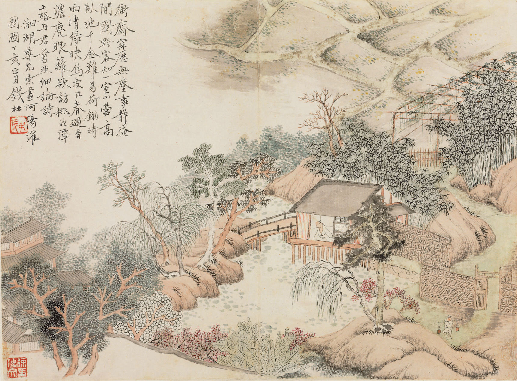 RETIREMENT